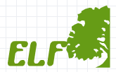 Earth Liberation Front logo